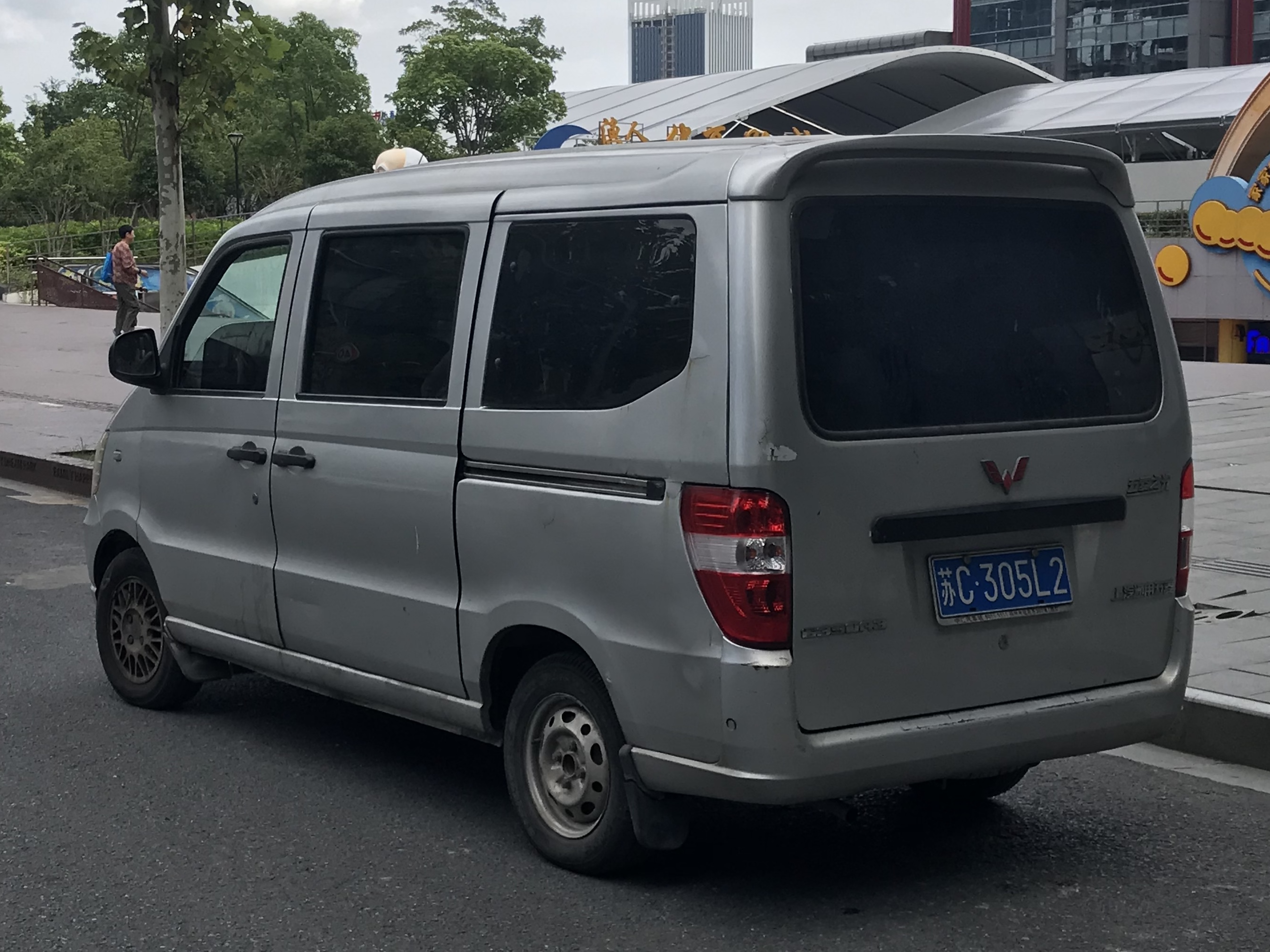 Second generation Wuling Sunshine